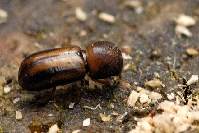 Trypodendron lineatum from Commanster, Belgian High Ardennes .